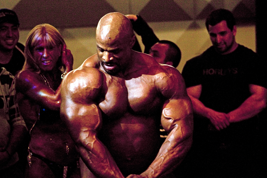 Ronnie Coleman 8 x Mr Olympia 2009 Melbourne, VIC, Australia